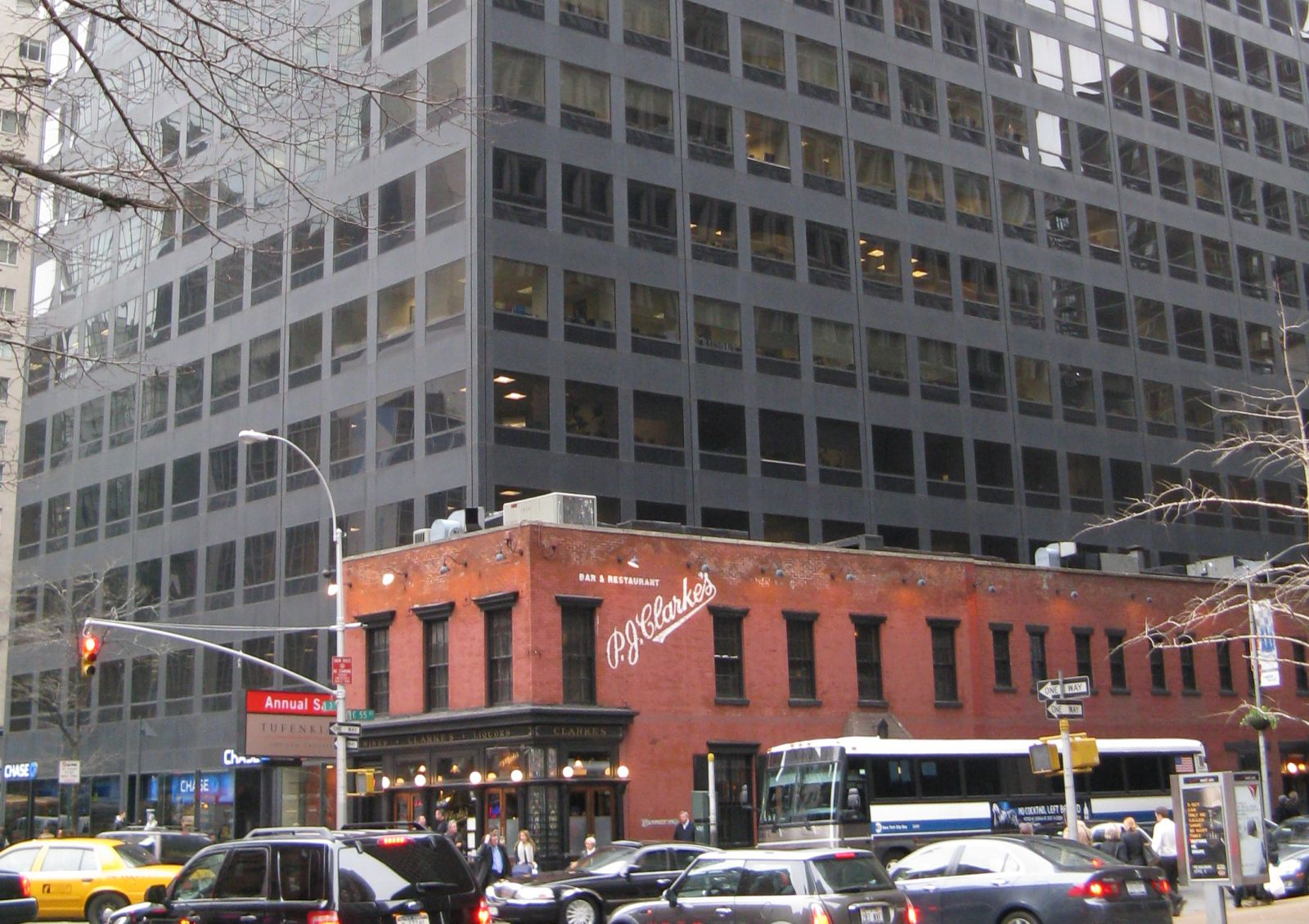 P.J. Clarke's